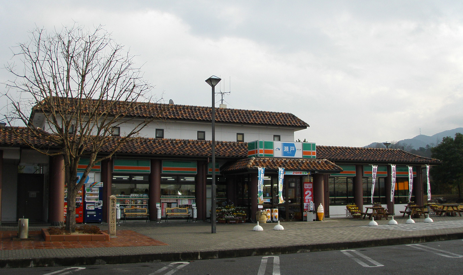 Sanyo Expressway Seto Parking Area upside（for Kobe）